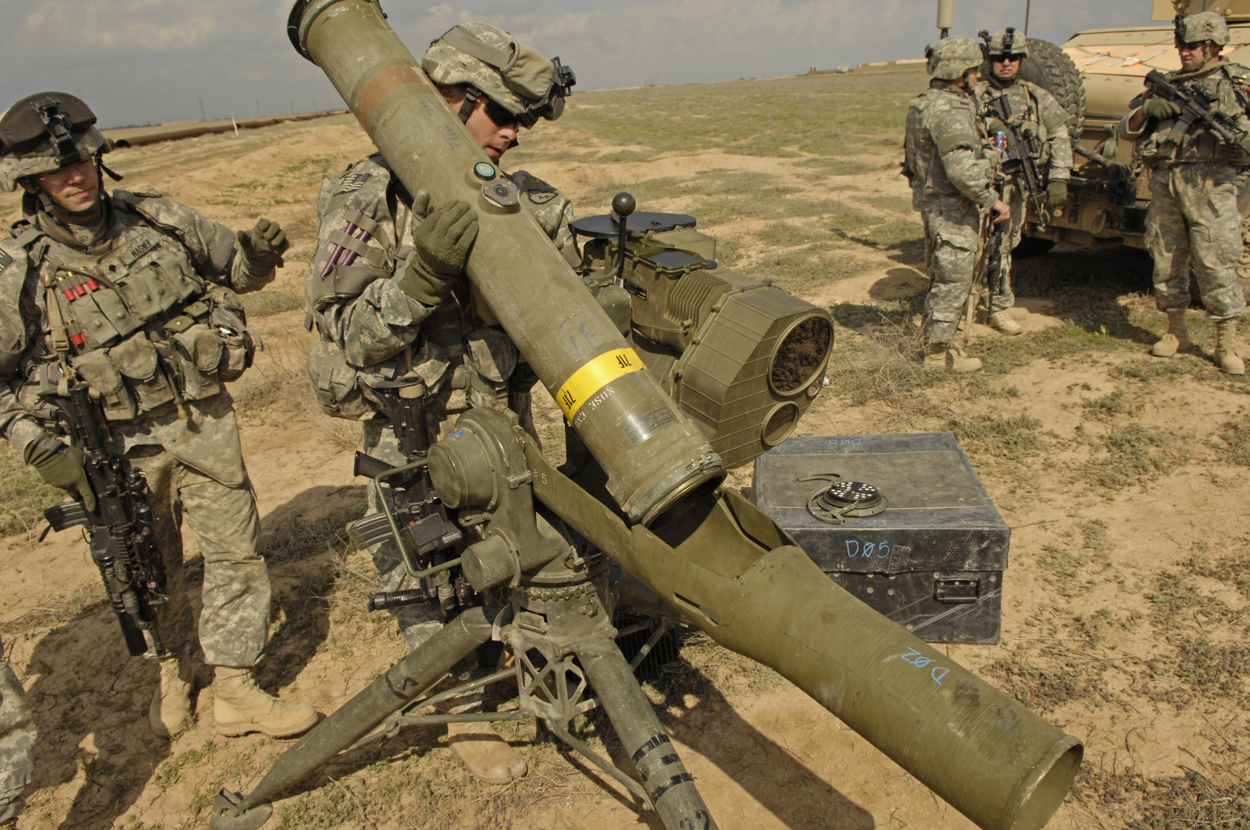 U.S. Army Sgt. 1st Class Kennedy assembles the ITAS (Improved Target Acquisition System) Saber Missile system in Riyadh, Province Kirkuk, Iraq, April 15, 2007. Kennedy is from Delta Company, 2nd Battalion, 27th Infantry Regiment, 3rd Brigade Combat Team, 25th Infantry Division.